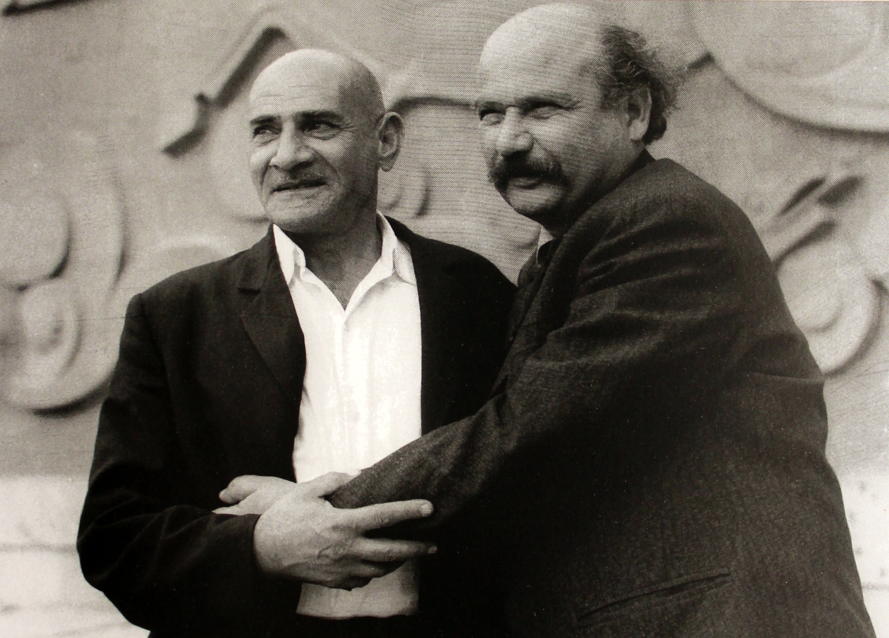 The making of this file was supported by Wikimedia Armenia.